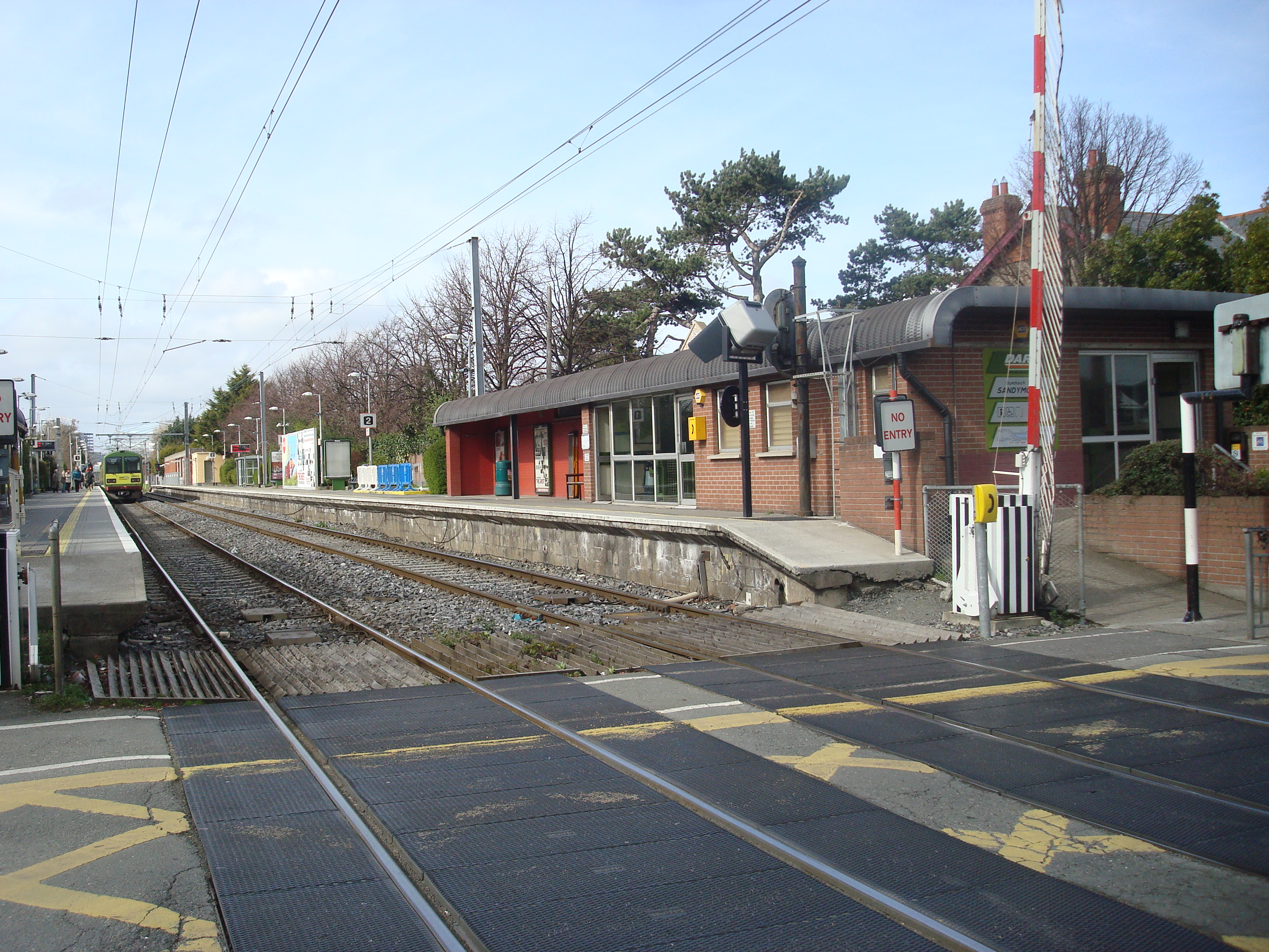 Sandymount Train Station, Dublin